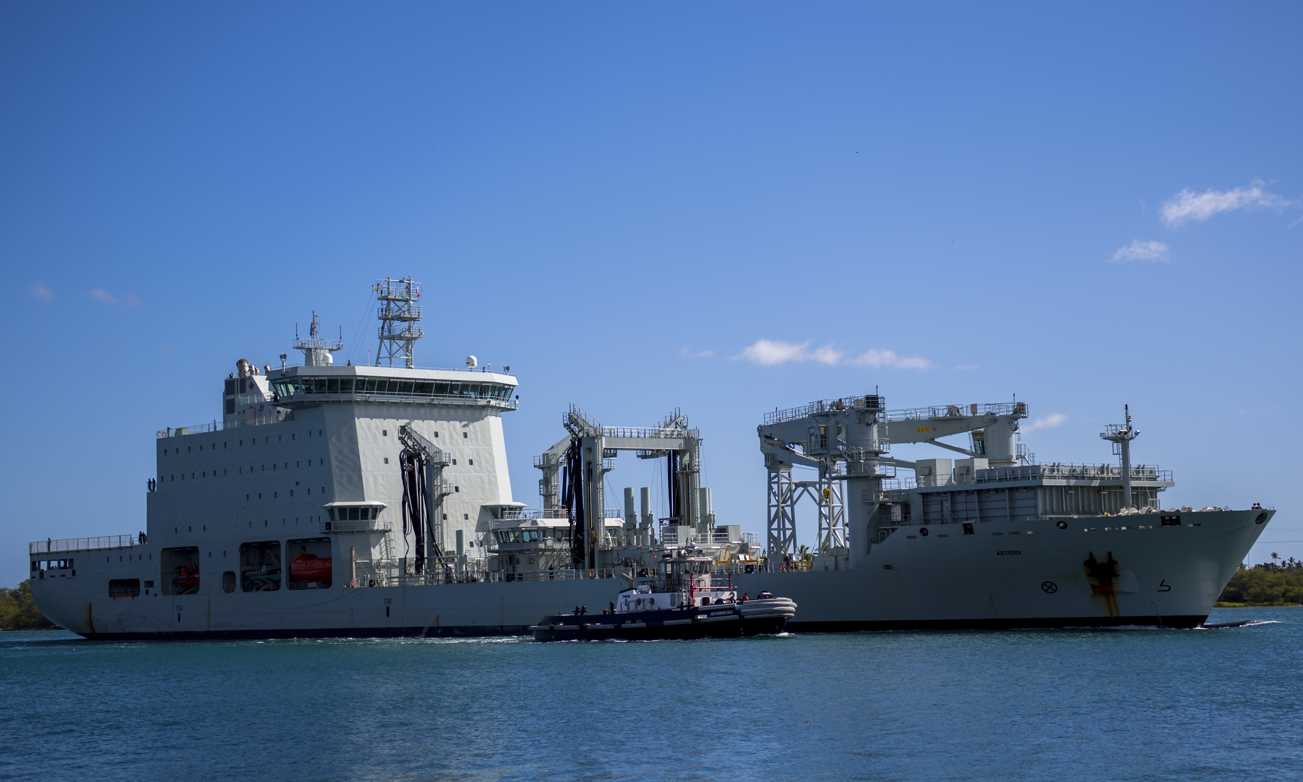 180626-N-NU281-0079 PEARL HARBOR (June 26, 2018) Royal Canadian Navy supply ship MV Asterix arrives at Joint Base Pearl Harbor-Hickam in preparation for Rim of the Pacific (RIMPAC) exercise. Twenty-six nations, more than 45 ships and submarines, about 200 aircraft, and 25,000 personnel are participating in RIMPAC from June 27 to Aug. 2 in and around the Hawaiian Islands and Southern California. The world’s largest international maritime exercise, RIMPAC provides a unique training opportunity while fostering and sustaining cooperative relationships among participants critical to ensuring the safety of sea lanes and security of the world’s oceans. RIMPAC 2018 is the 26th exercise in the series that began in 1971. (U.S. Navy photo by Mass Communication Specialist 2nd Class Justin R. Pacheco)